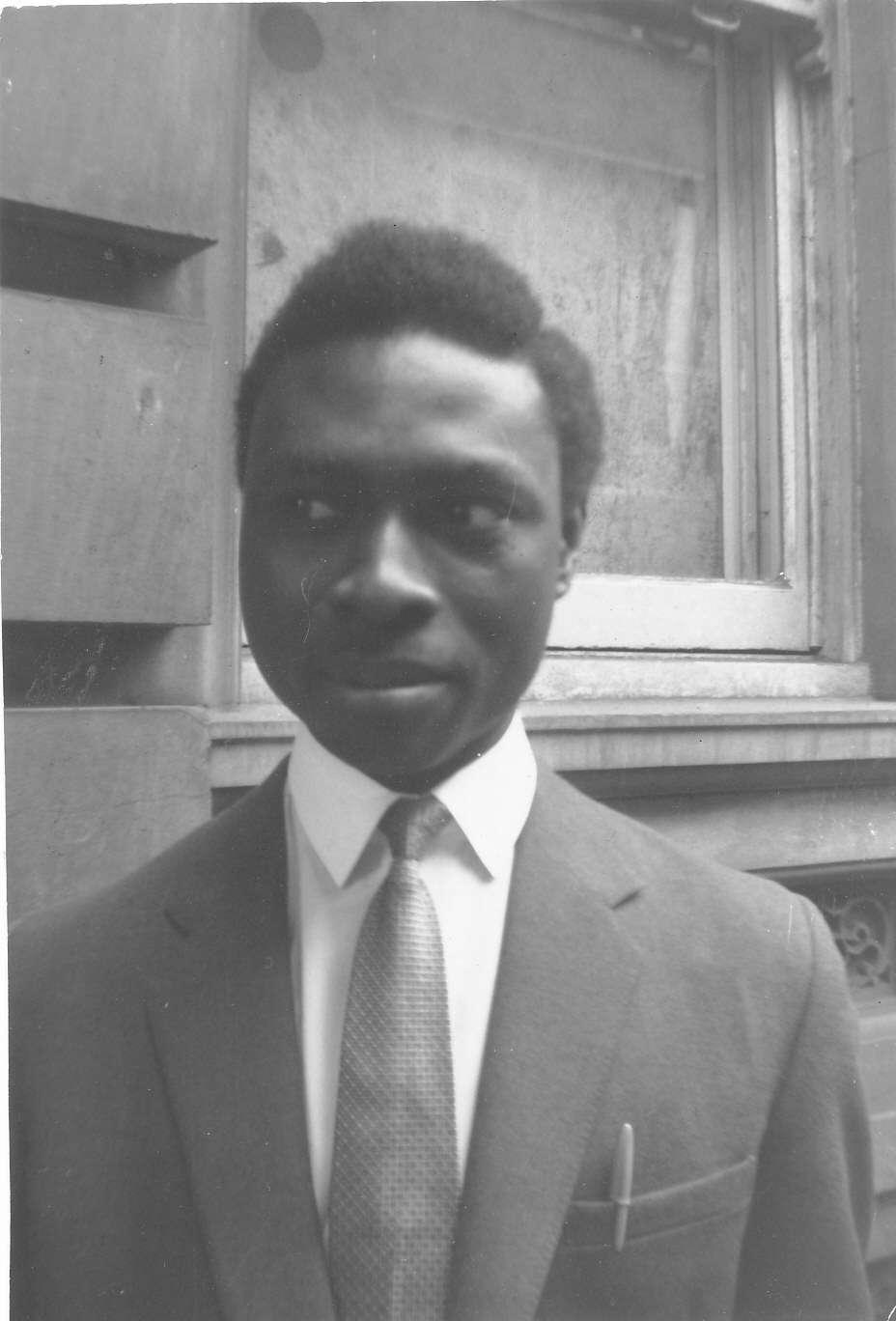 Nigerian composer Ayo Bankole taken outside the London Guildhall School of Music and Drama - 1960